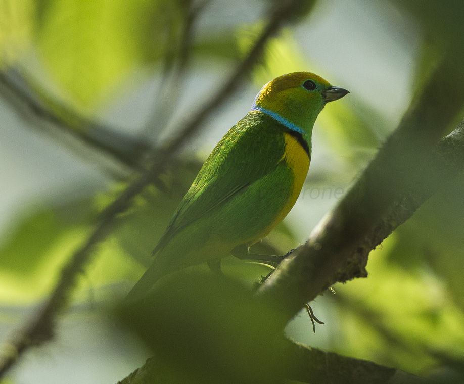 Golden-browed Chlorophonia - San Luis - Costa Rica_S4E1380